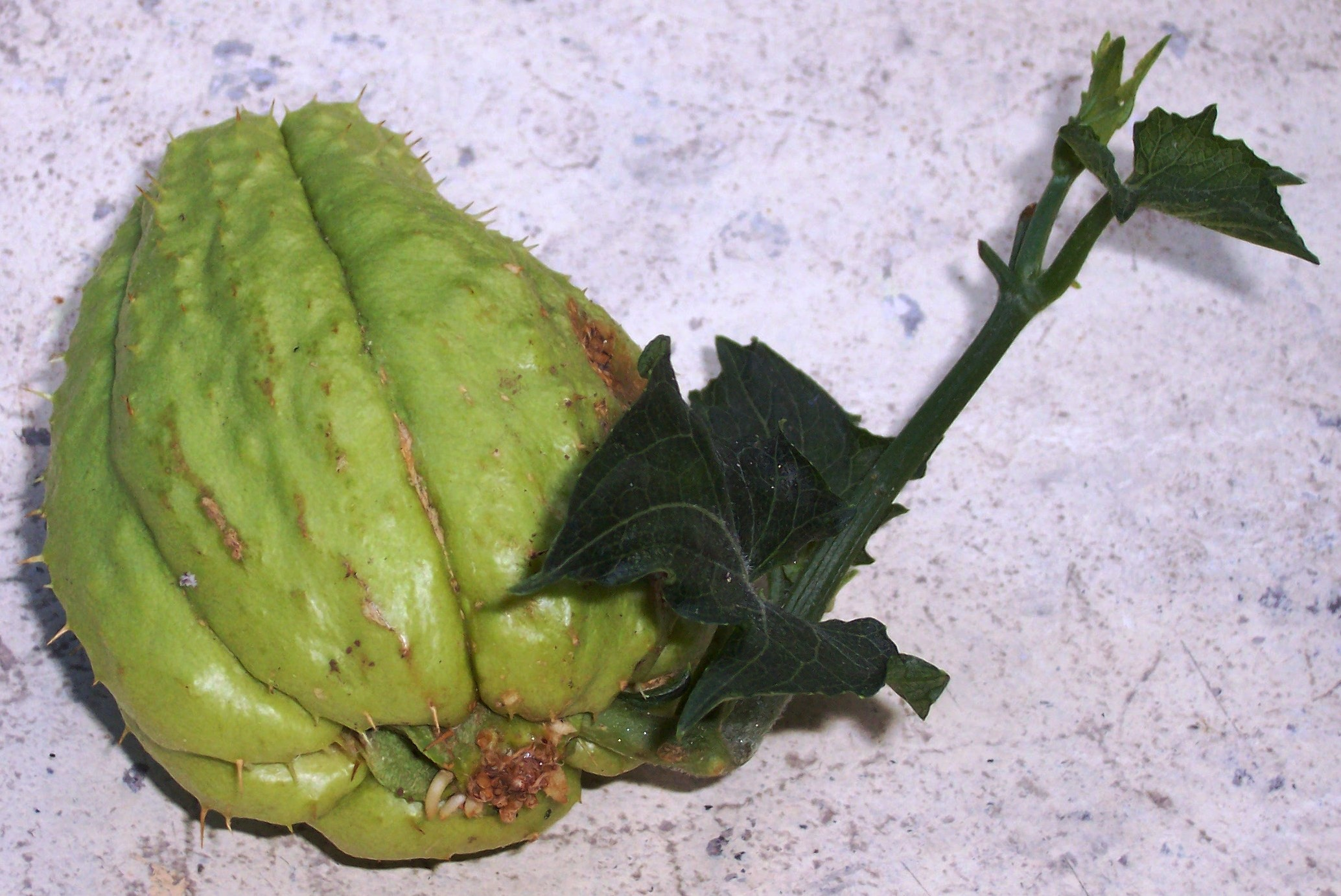 Chayote (Sechium edule) : the unique seed is not released and germinates inside the fruit, directly giving a new plant